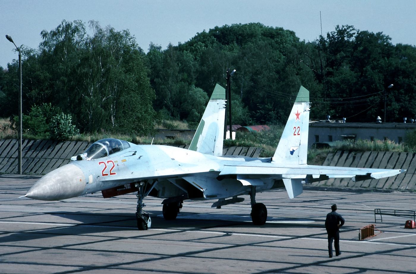 Ready to taxi. On 10 July 1992 the 159th (Guards) Fighter Aviation Regiment left Stargard, Poland. Photo taken from a small tower in front of the flightline.